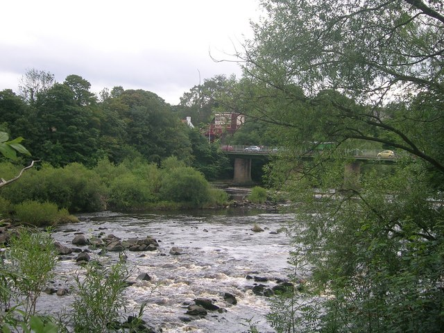 Wylam Bridge, showing the railway signal box from the north side of the river Tyne. The bridge is currently under threat of demolition. This will cut the village of Wylam, Tyne & Wear, in two and also take away part of a popular walking route.